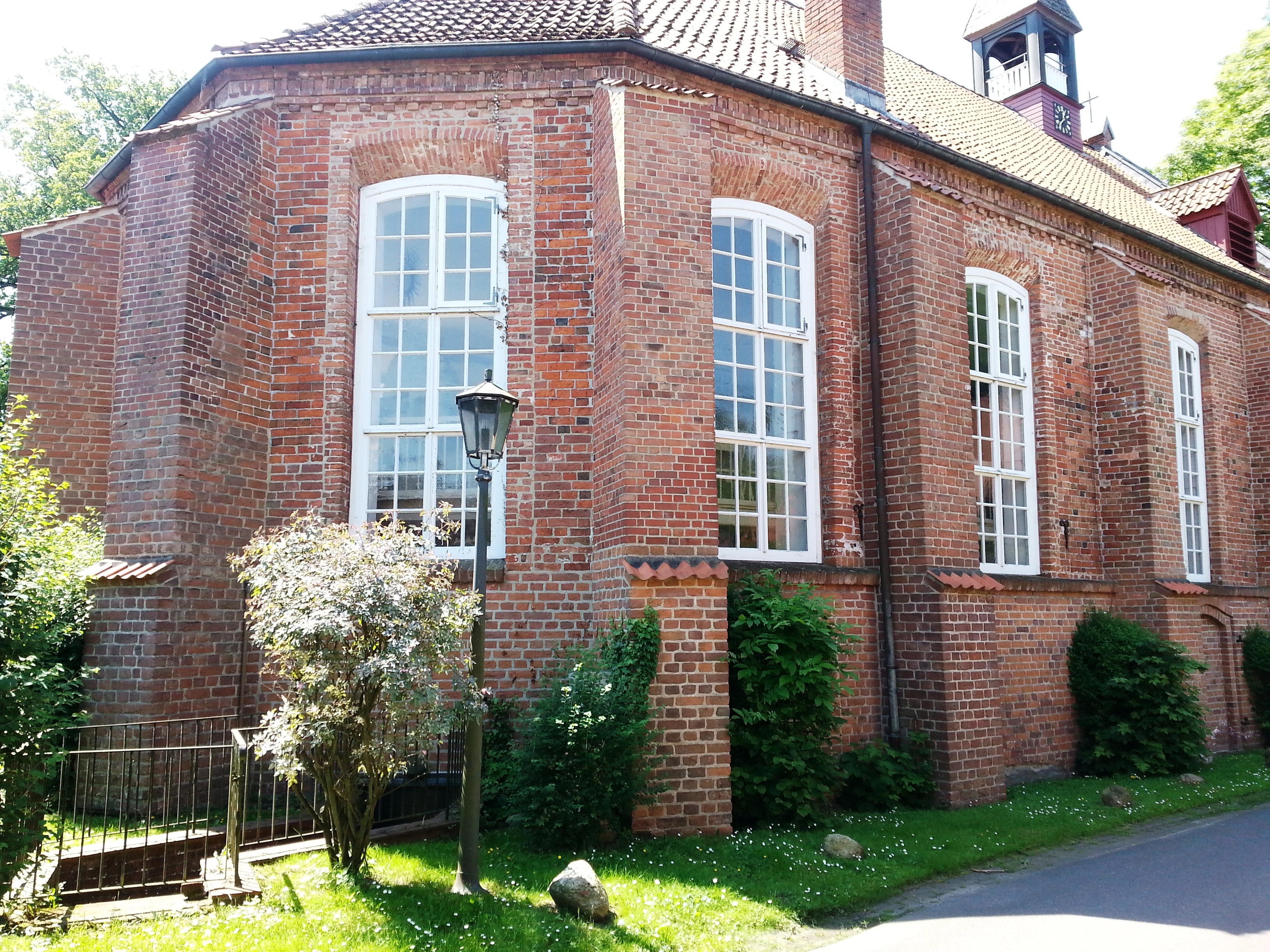 The St. Mary's Church in Himmelpforten, Lower Saxony, Germany. View of the northern façade, the sole remainder of the former abbey church.